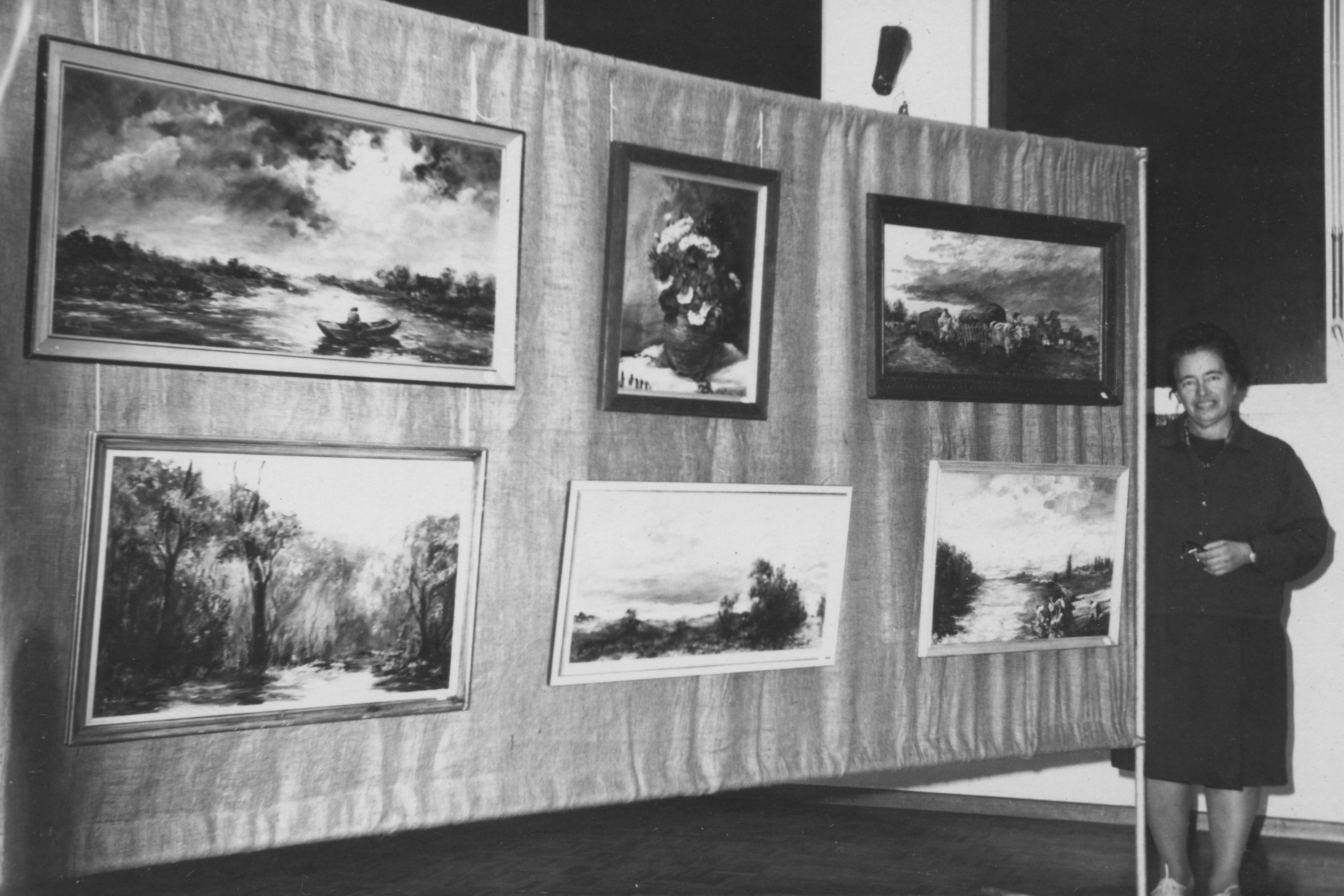 Sofia Sywenka next to her paintings at the Ukrainian Artists Society of Australia exhibition at the St Andrews Catholic Church hall in Lidcombe, NSW Australia, 27 April 1972.